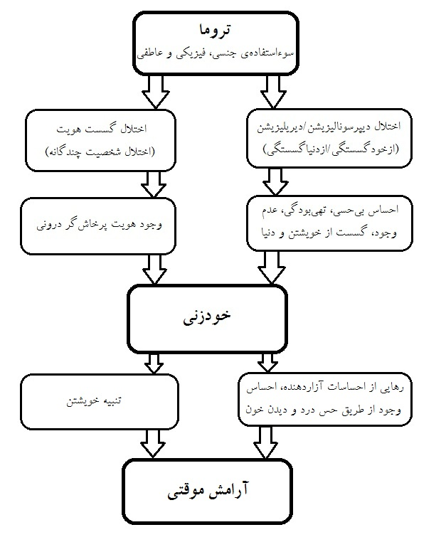 Nobakht & Dale (2017) Model in an Attempt to Explain the Relationship between Trauma, Dissociation and Deliberate Self-Harm